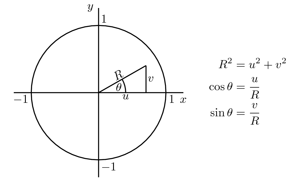 Diagram to explain how the Box-Muller Transform can be expressed in polar coordinates in order to avoid using trigonometric functions in calculating it.